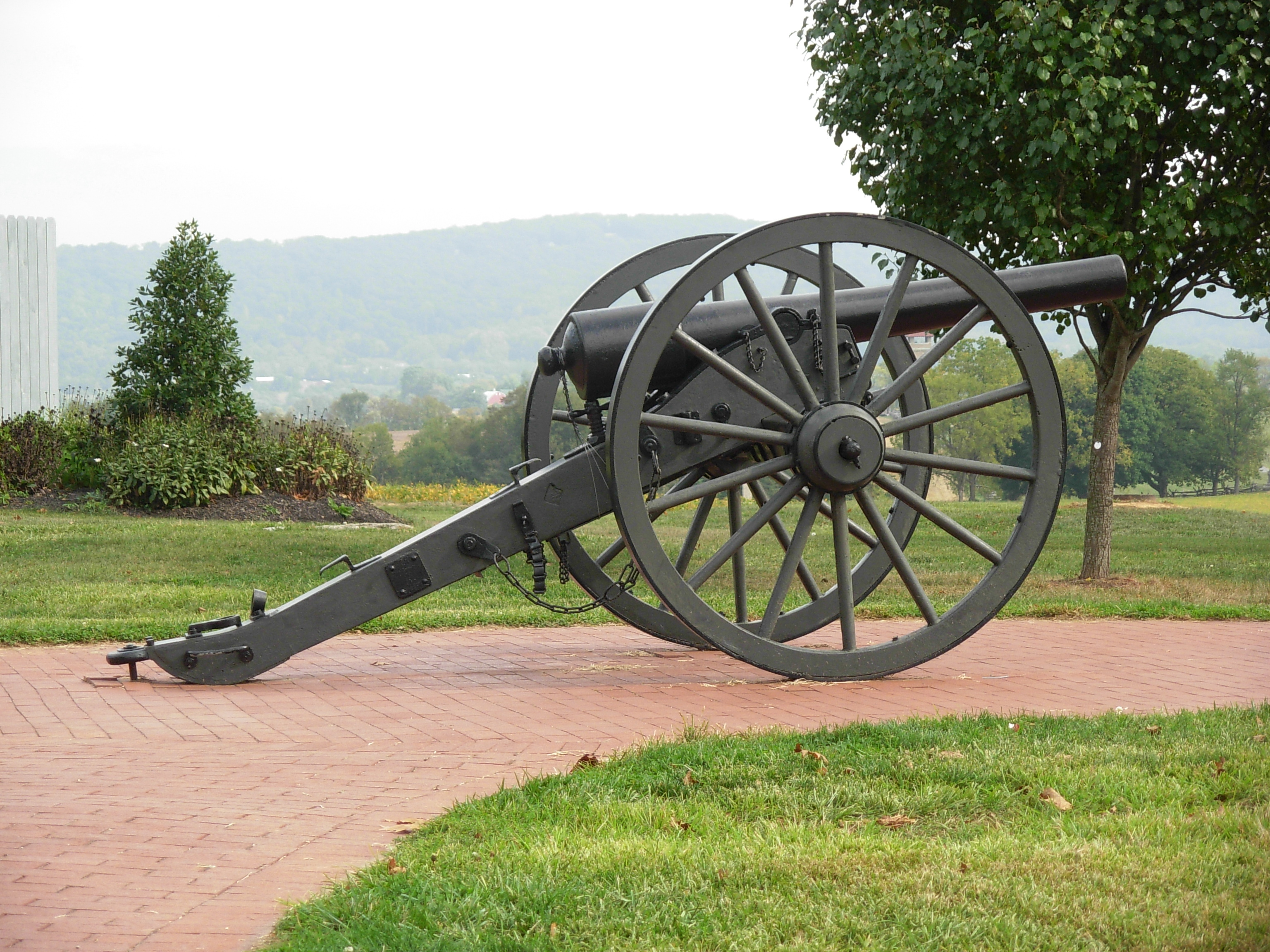 Artillery Memorial at the Antietam National Battlefield, in northwestern Maryland. The gun is a 10-pounder Parrott rifle.